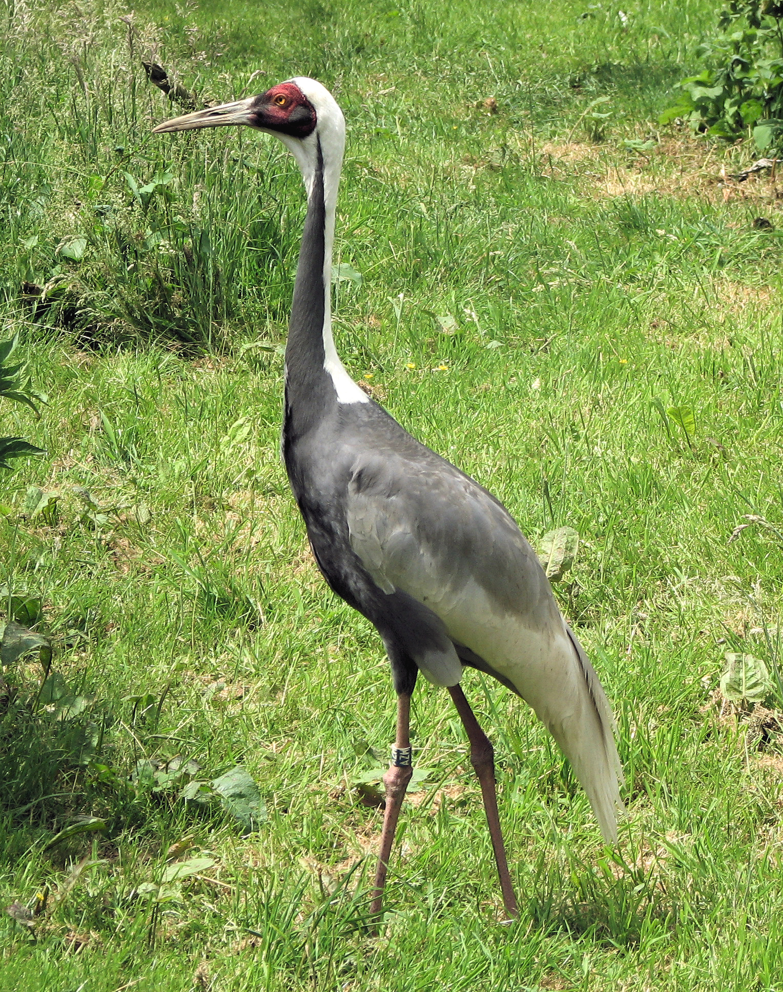 White-naped Crane Grus vipio at the Cotswold Wildlife Park, Oxfordshire, England.